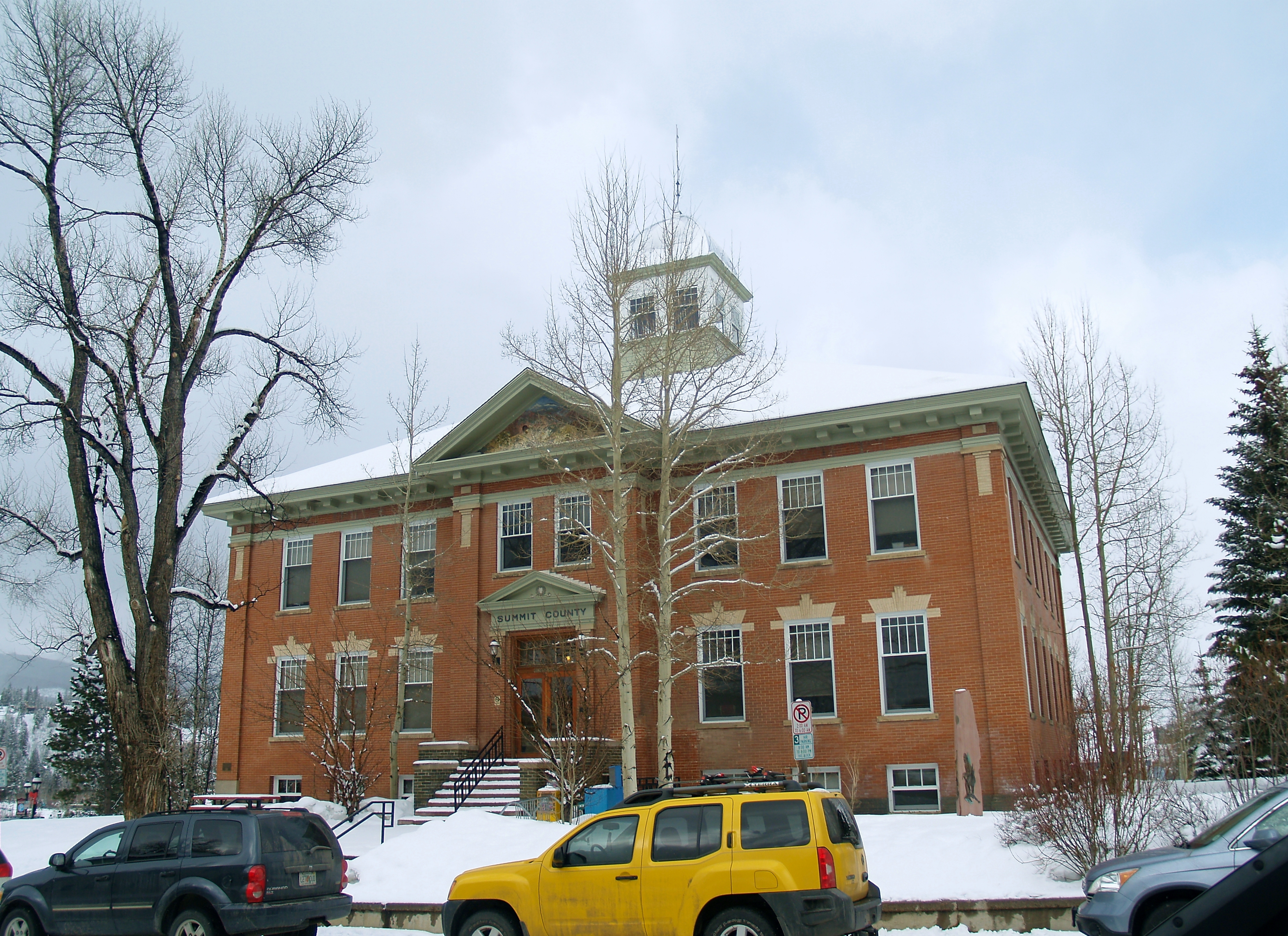 Summit County court house in Breckenridge, Colorado.